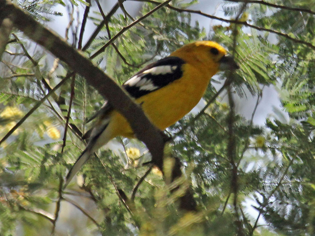 Male Golden-bellied Grosbeak (Pheucticus chrysogaster) - Peguche Waterfall, Ecuador